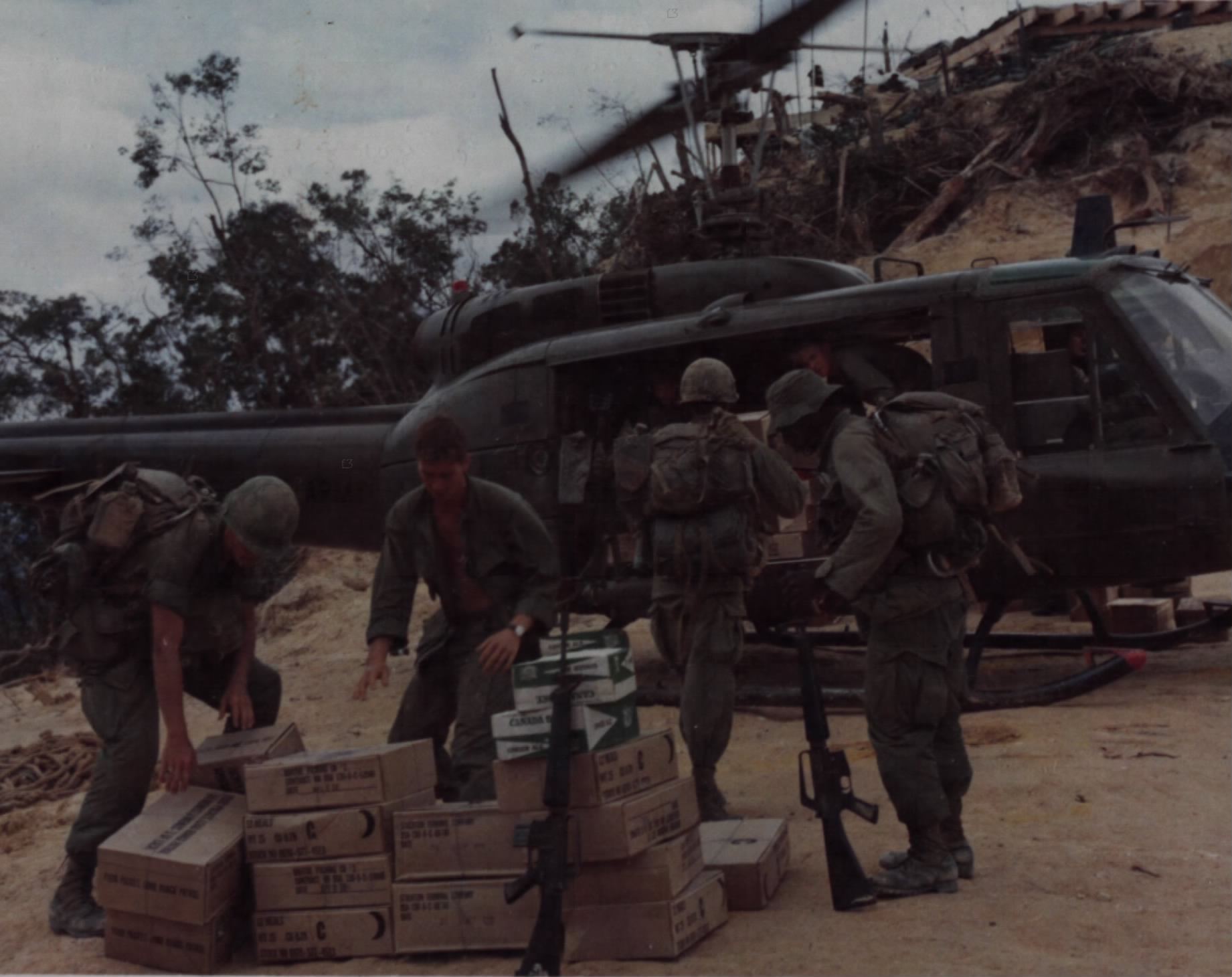 OPERATION "SOMERSET PLAIN". UH-1D helicopters are loaded with supplies for field companies at Fire Base "Berchtesgaden."